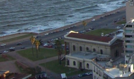 Building: Templo Inglés Location: Ciudad Vieja, Montevideo, Uruguay